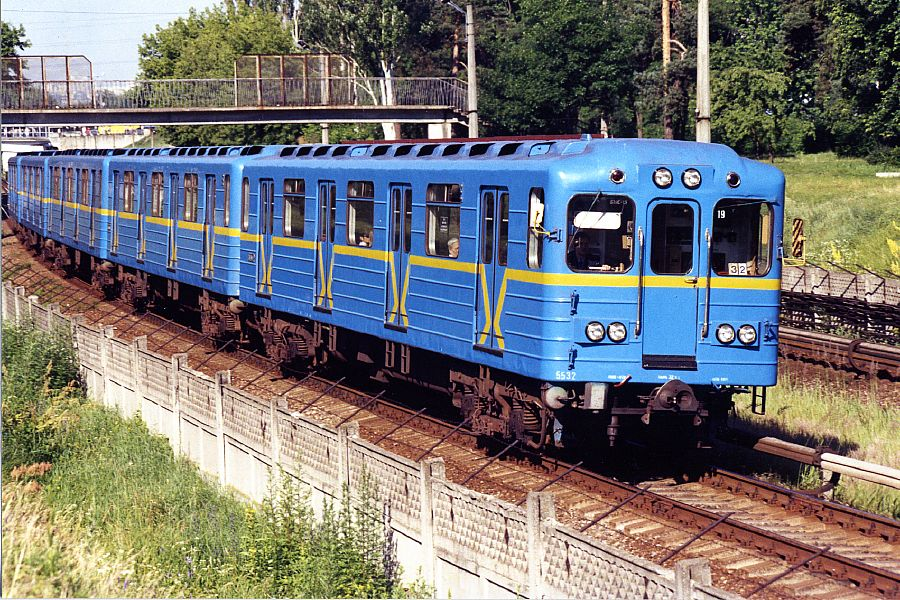 Metro train type Ezh in Kyiv, Ukraine, near Chernigivska station.